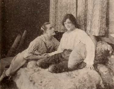 Still from the American comedy film Alma, Where Do You Live? (1917) with George Larkin and Ruth MacTammany, on page 25 of the August 4, 1917 Exhibitors Herald.